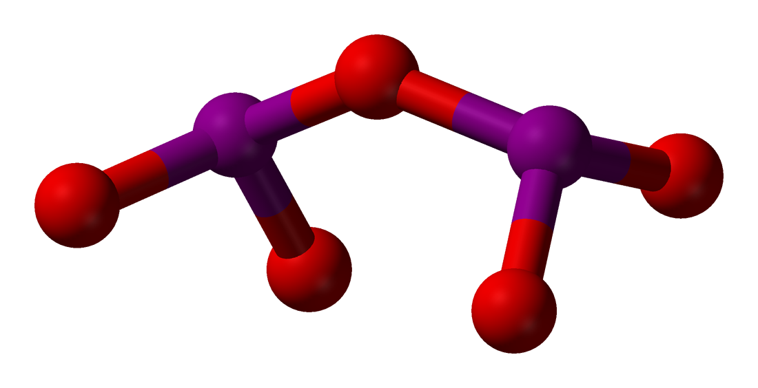 Ball-and-stick model of the iodine pentoxide molecule, I2O5. Source for structure: Norman N. Greenwood, Alan Earnshaw (1997) Chemistry of the Elements (2nd ed.), Butterworth-Heinemann, p. 851 ISBN: 0-08-037941-9.